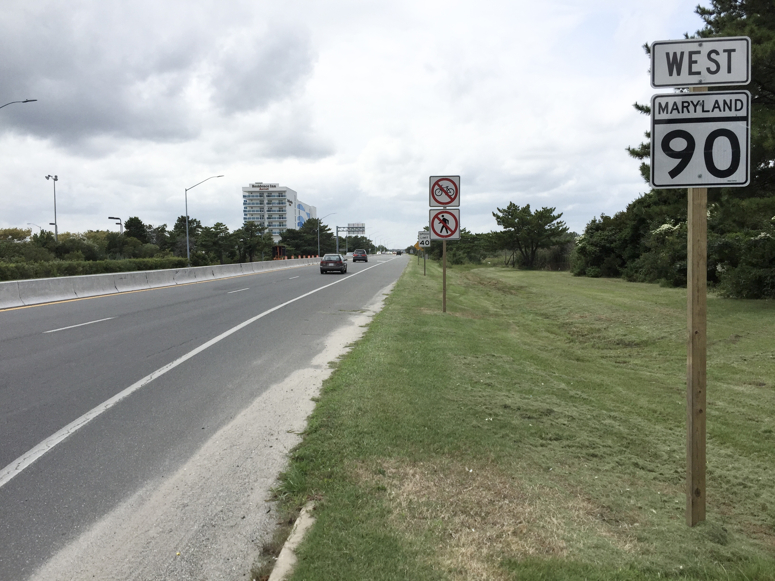 View west along Maryland State Route 90 (Ocean City Expressway) at Maryland State Route 528 (Coastal Highway) in Ocean City, Worcester County, Maryland